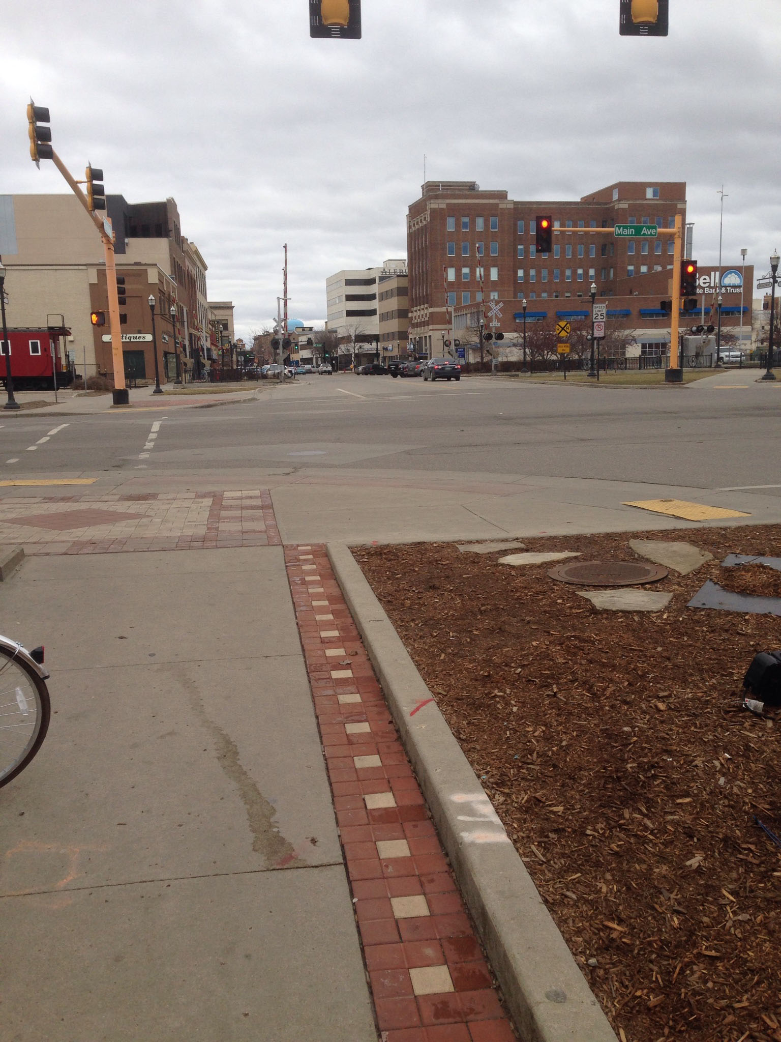 Downtown Fargo on the intersection of Main Ave and Broadway.